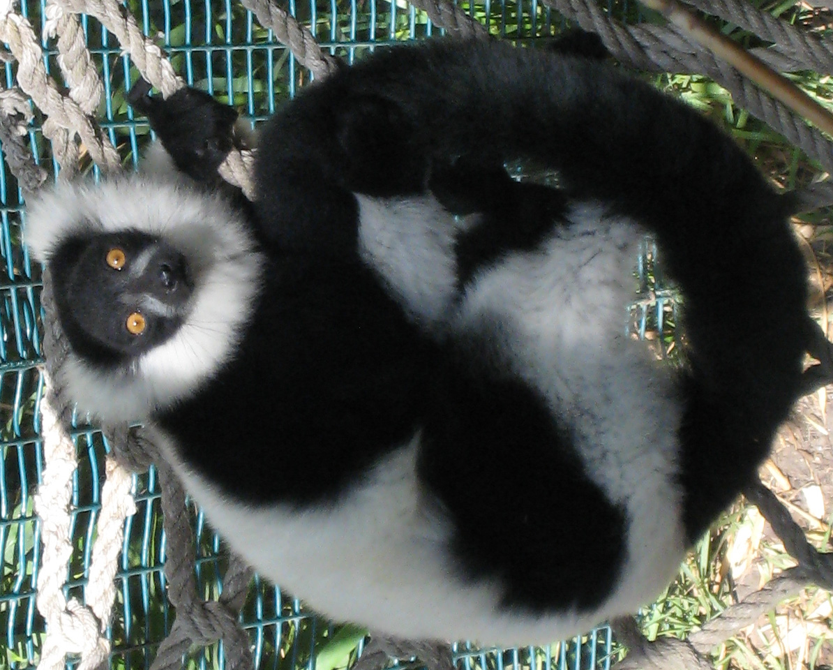 Varecia variegata curled up on rope hammock; taken at the Santa Barbara Zoo